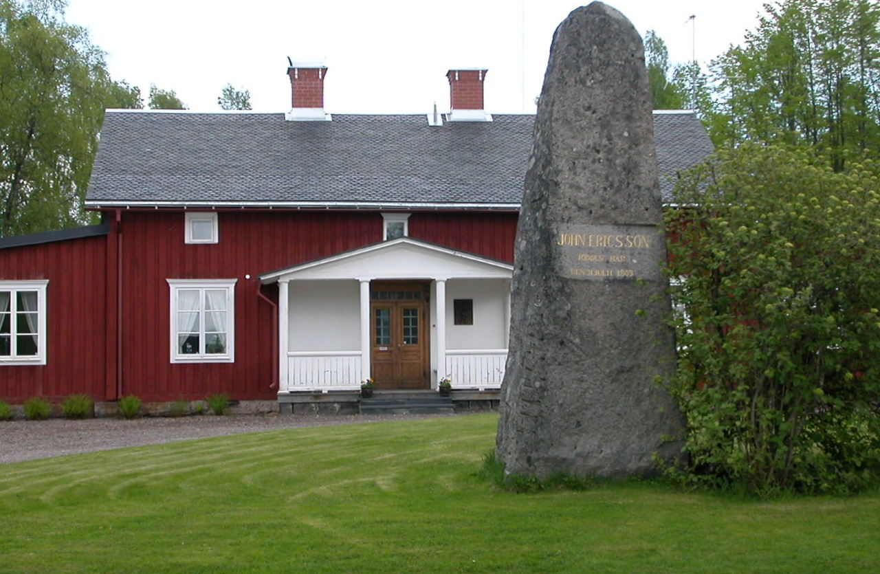 Långbanshyttan, Sweden. The birth place of John Ericsson